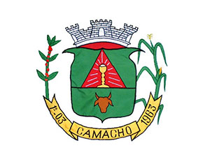 Flags of the city of Camacho, Minas Gerais, Brazil.